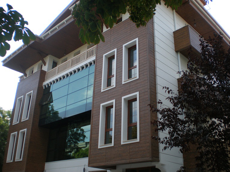 Picture of the USAK, Ankara-based Turkish think tank Mebusevleri-Ankara